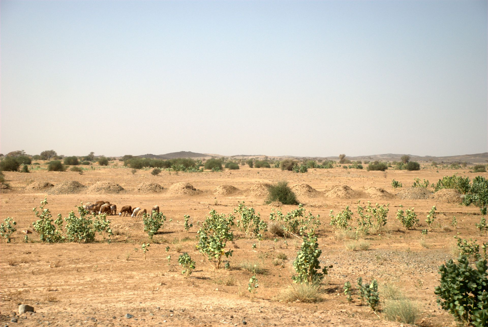 typical dry northeastern part of Butana, Sudan